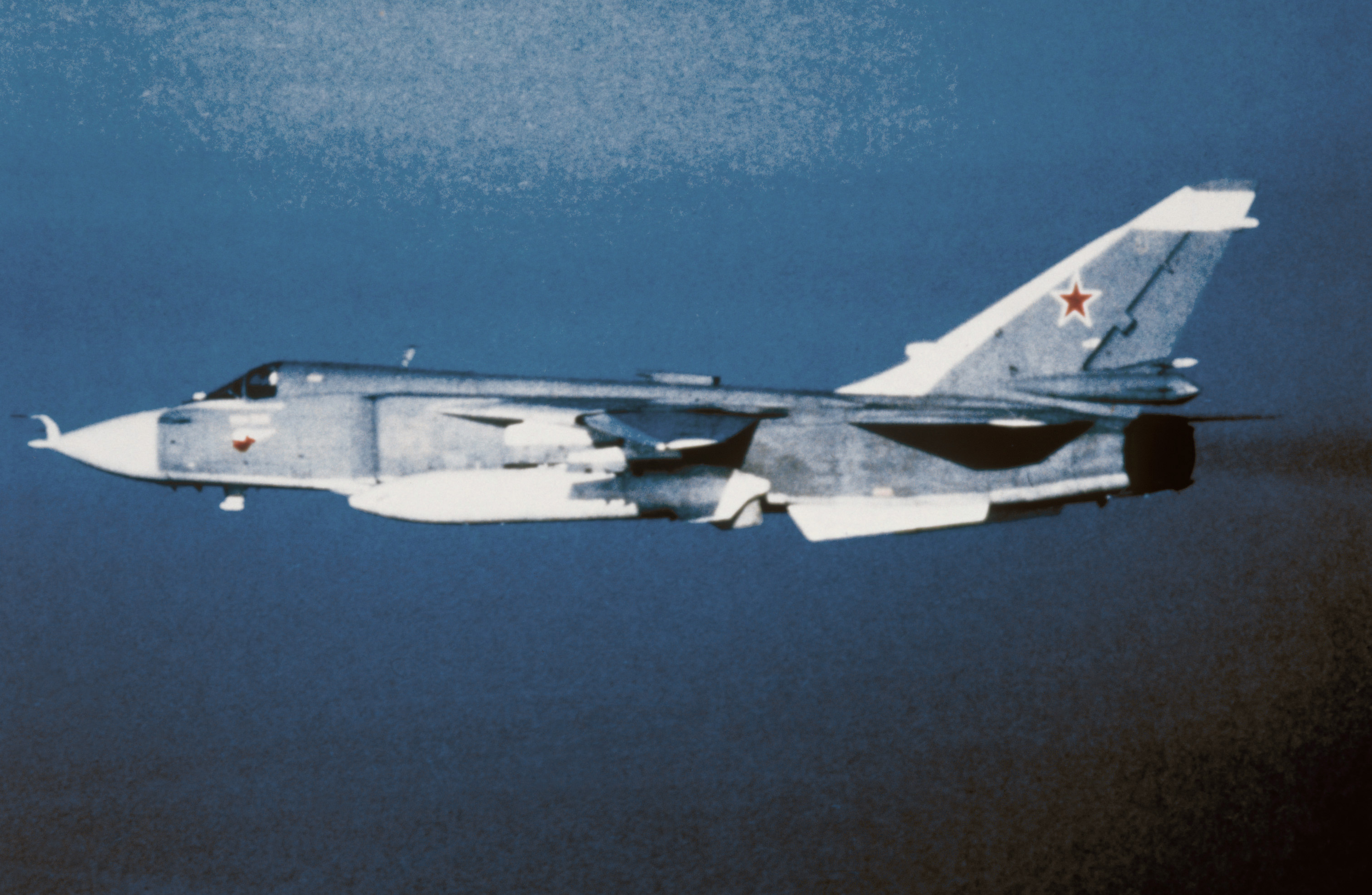 A left side view of a Soviet Su-24 Fencer light bomber in flight.